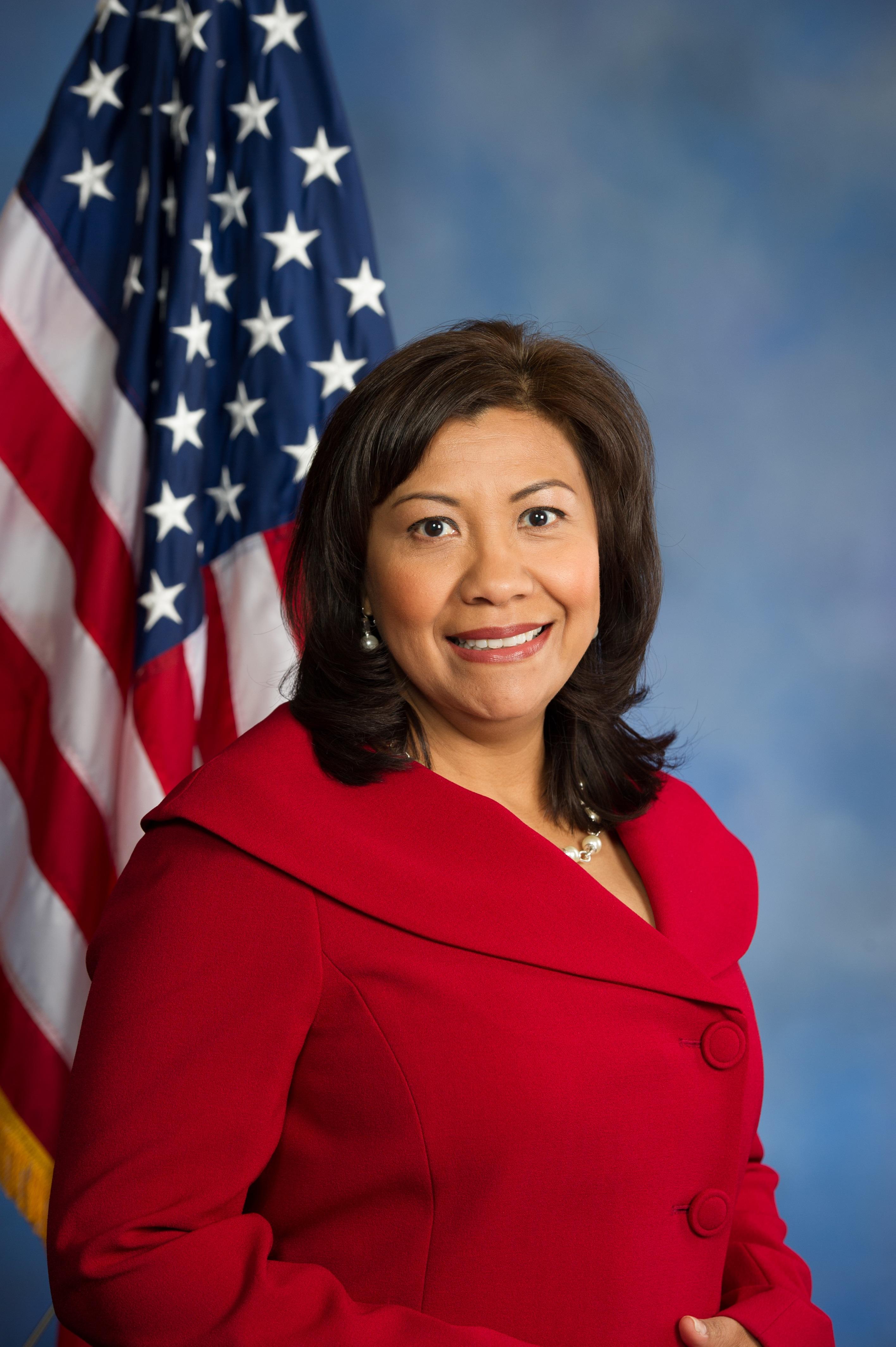 Norma Torres official portrait 114th Congress